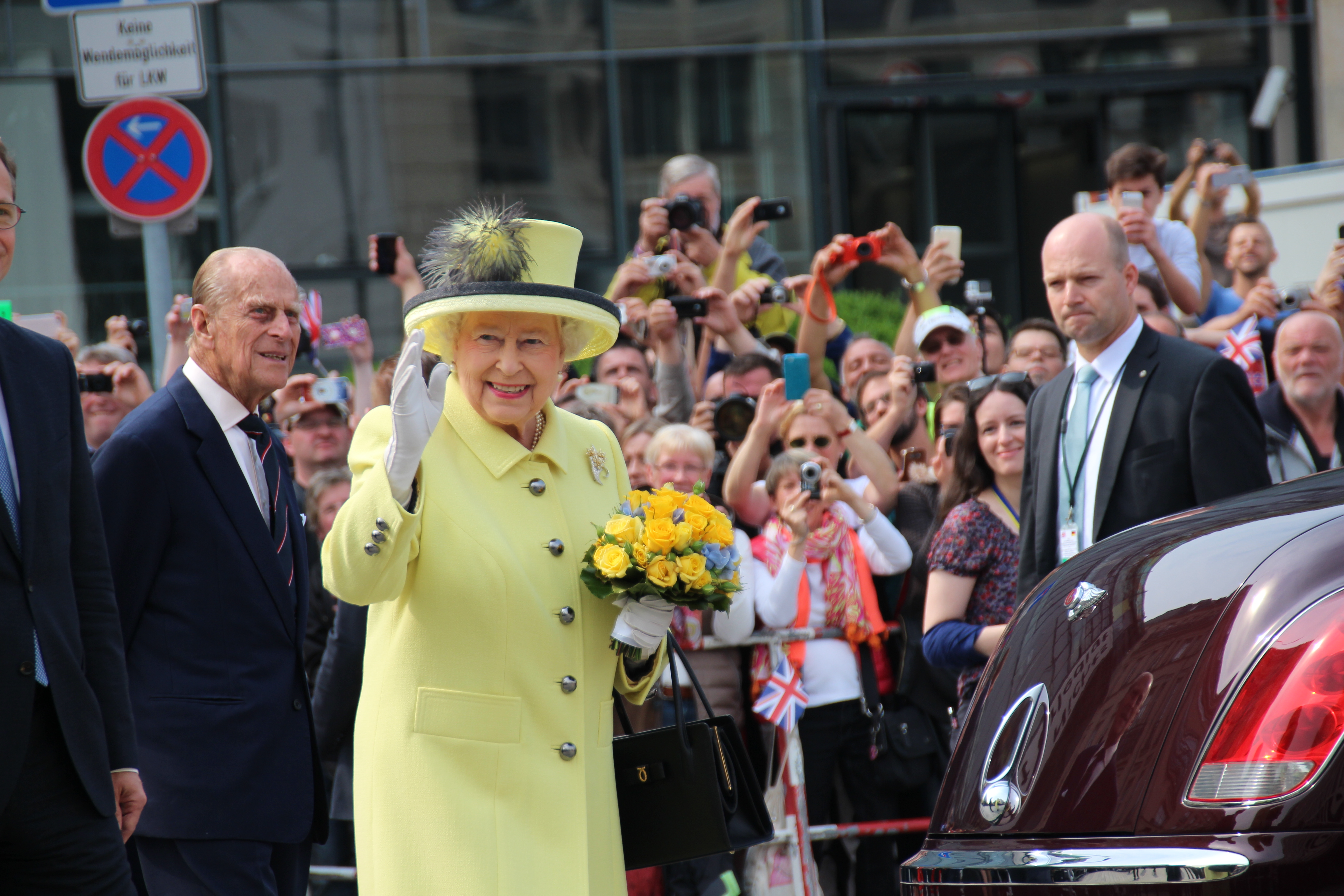 Elizabeth II in Berlin 2015, aged 89